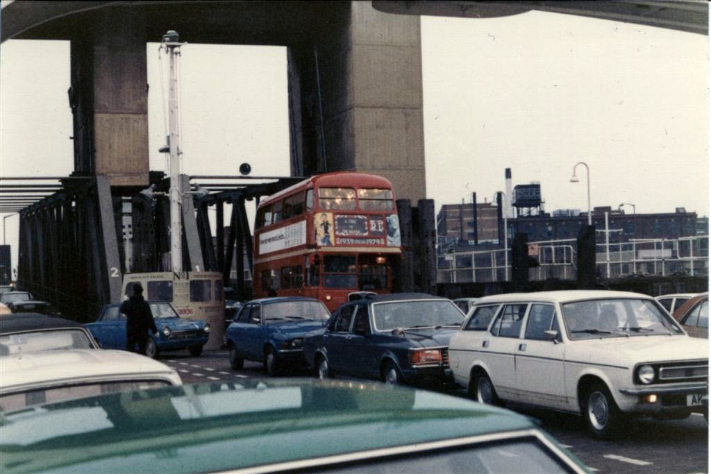 The North Woolwich side. Taken on April 7th 1979. This was a preserved one that had taken part in the final day of service. See where this picture was taken. [?]